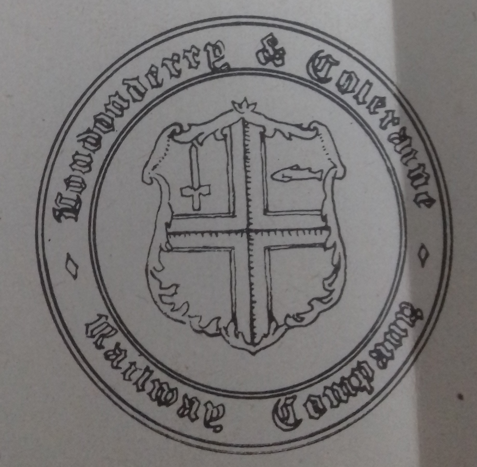 Seal of the Londonderry & Coleraine Railway 1852 -1871